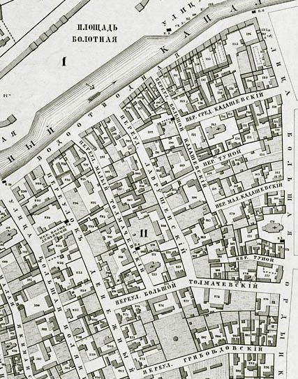 1850s map of Kadashi area in Moscow